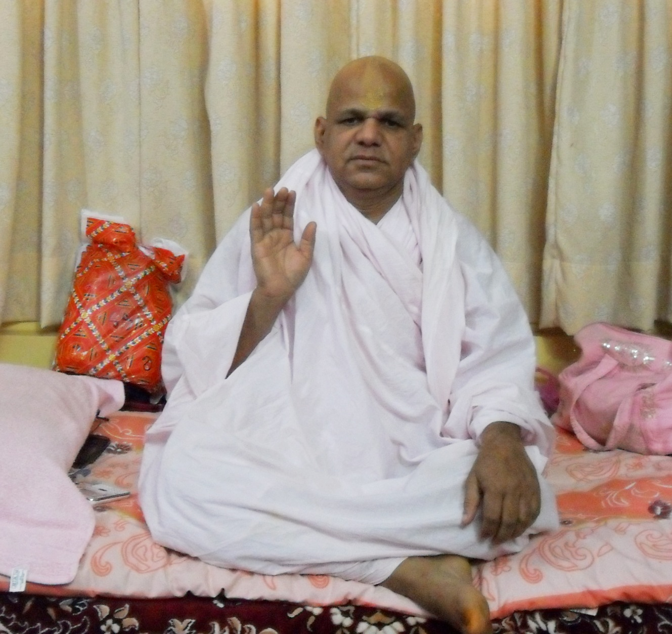 This is a photo of Swami Ji Shri Ramdayal Ji Maharaj, the current head of Ramsnehi Sampradaya, Shahpura, Bhilwara. The picture was taken on December 27 2012, at the Chhawani Ramdwara, Indore.